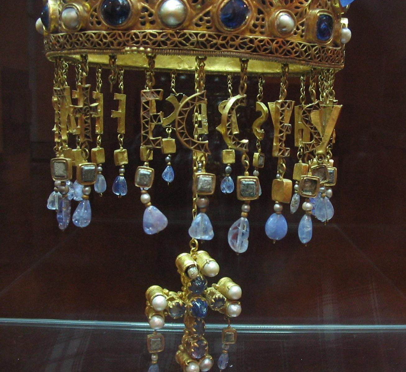 Detail of the votive crown of Visigoth king Reccesuinth († 672). It's part of the so-called Treasure of Guarrazar.